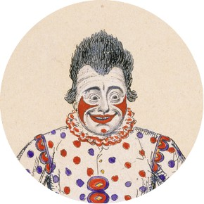 The actor Joseph Grimaldi as Clown in the pantomime Harlequin and Friar Bacon by Bonnor and O'Keefe staged at the Theatre Royal, Covent Garden London in 1820. Detail from hand-coloured etching by George Cruikshank (1792 – 1878), first published in the 19th century. [1]